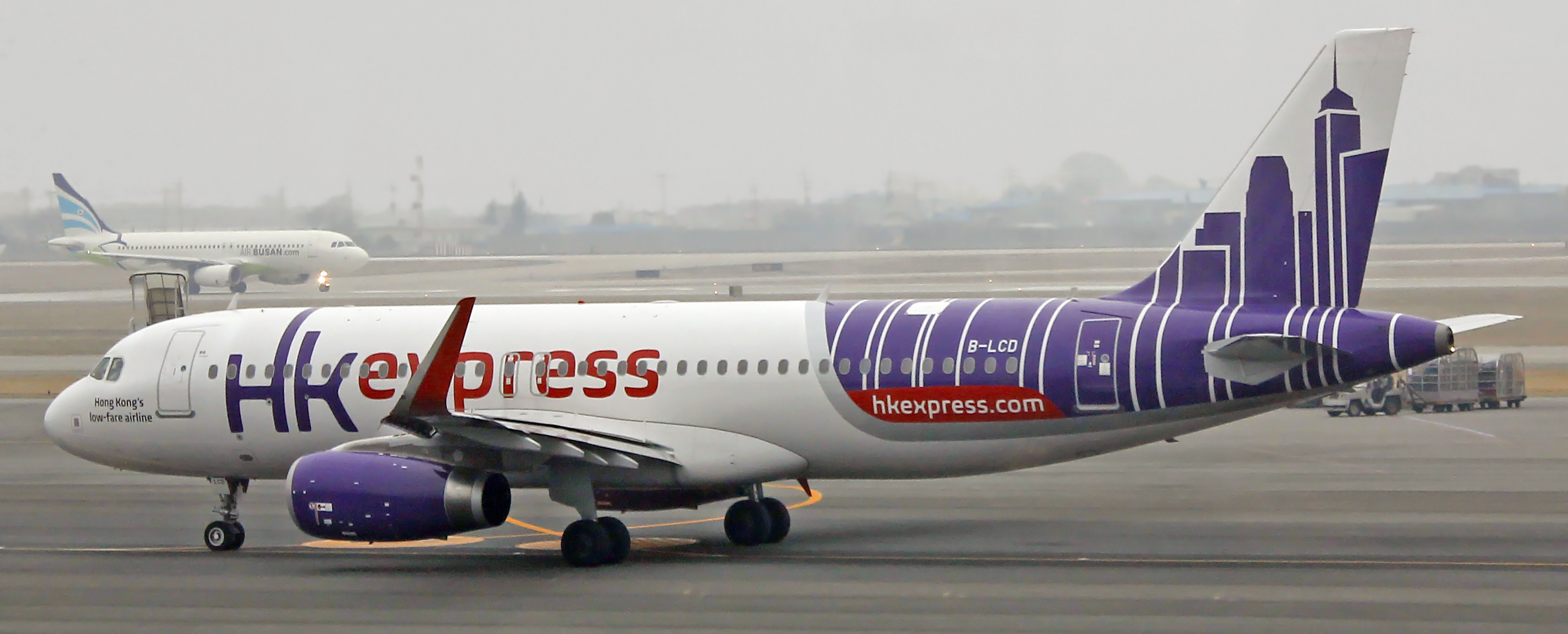 A320-200 B-LCD @PUS